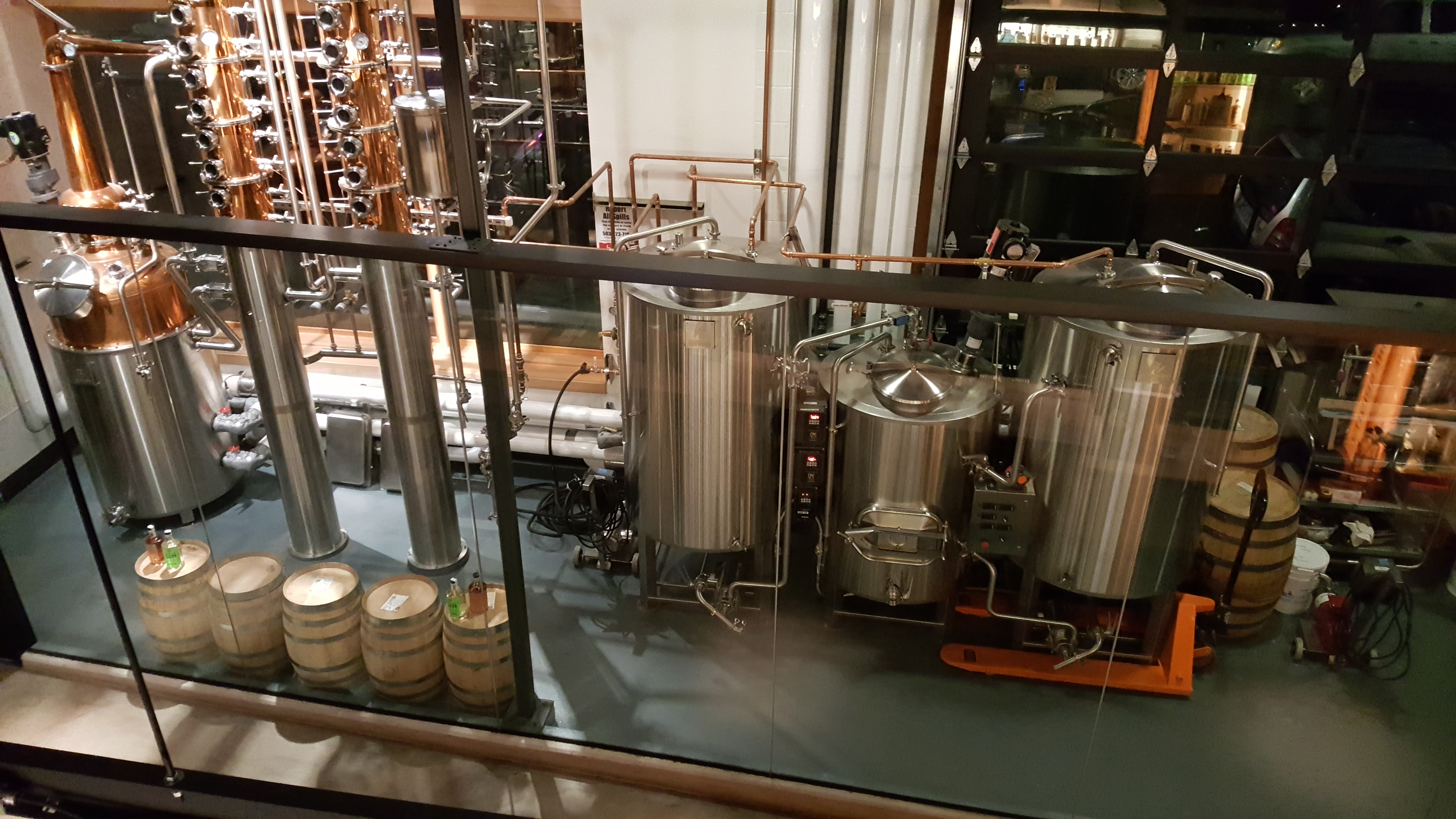 Shine Distillery and Grill, Portland, Oregon (2019)